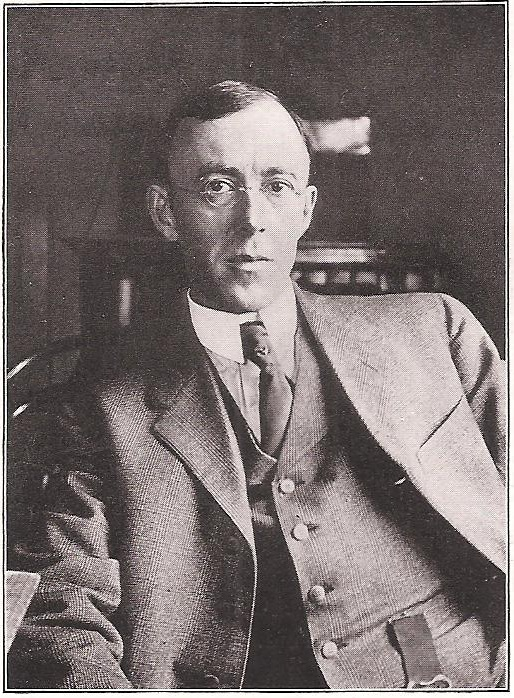 Photograph of Thomas Benton Cooley